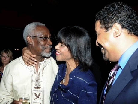 Picture of Portia Miller PJ Patterson and Wykeham McNeill taken by my Camera at a Party